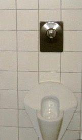 A female urinal „Lady P“ at Dortmund Airport, Dortmund, Germany